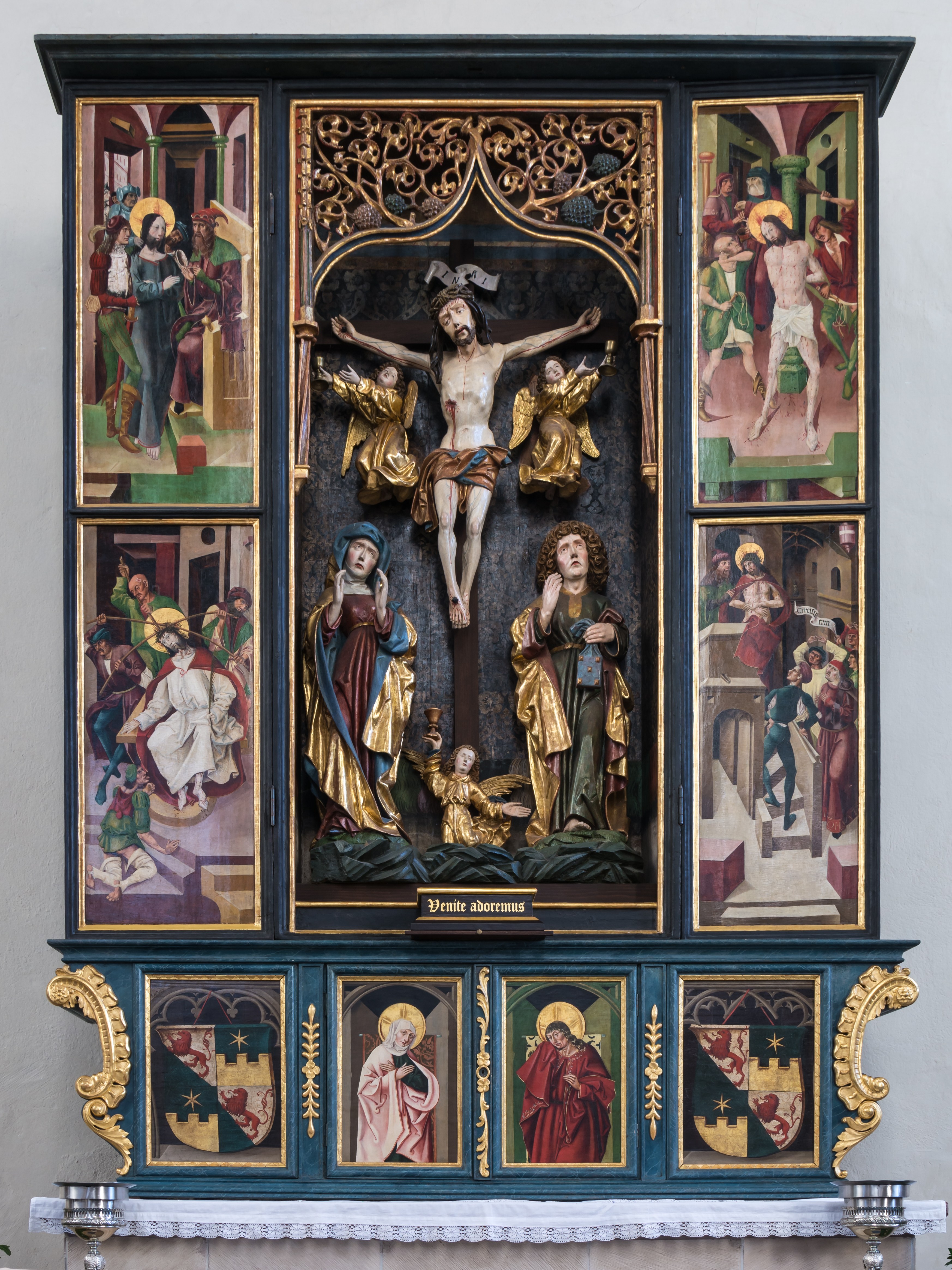 Winged altar at St. Anna parish church Pöggstall, Lower Austria. Anonymous master, around 1500.